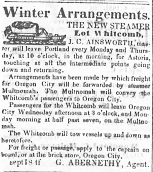 Advertisement for steamer Lot Whitcomb published in The Columbia, Olympia, Washington Terr. Vol I. #21, Jan 29, 1853.